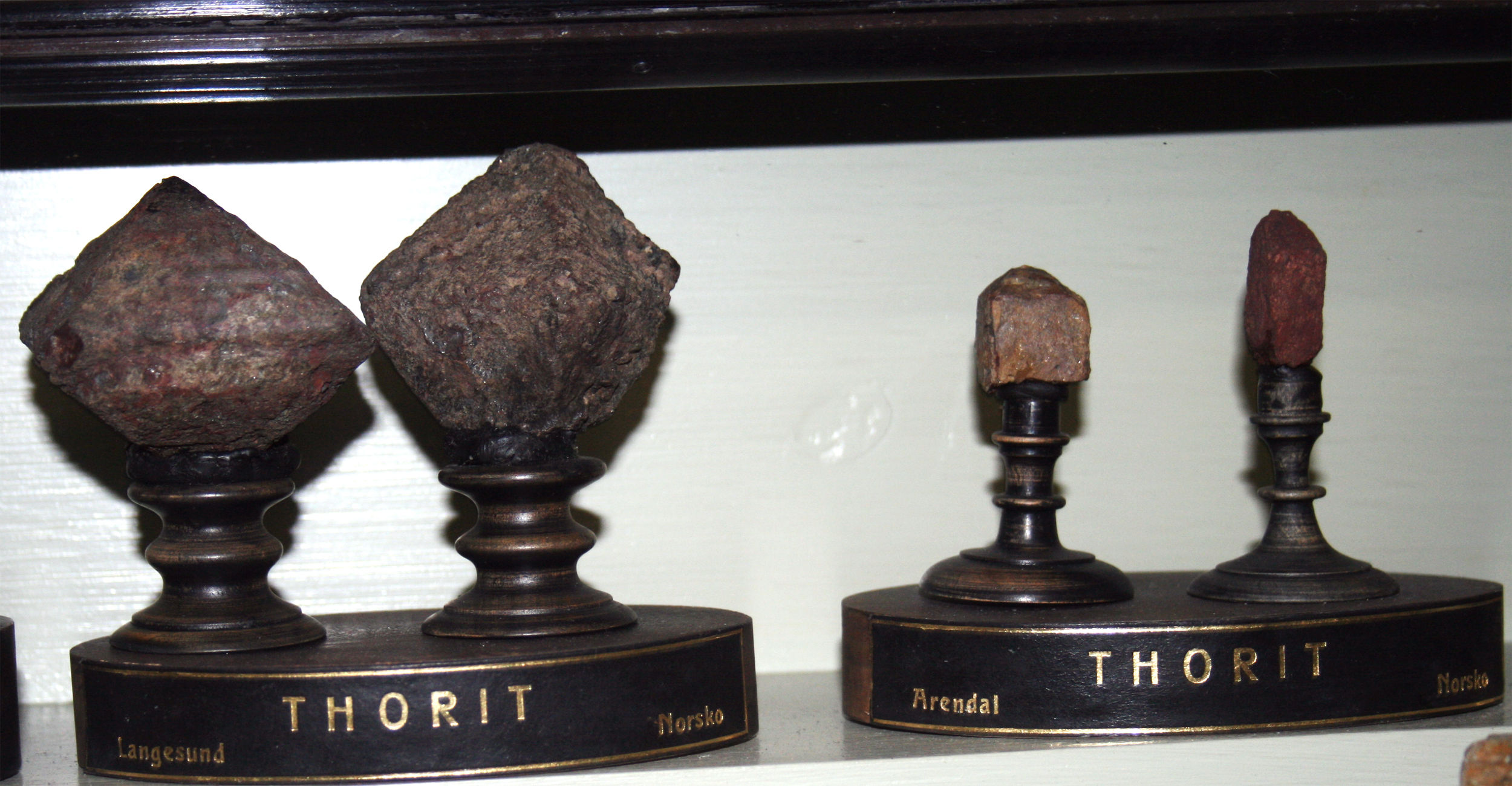 Mineral thorite, chemical composition: (Th,U)SiO4, from collection of National Museum, Prague, Czech Republic, originally from Norway